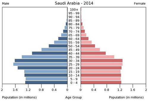 A population pyramid illustrates the age and sex structure of a Saudi Arabia’s population and may provide insights about political and social stability, as well as economic development. The population is distributed along the horizontal axis, with males shown on the left and females on the right. The male and female populations are broken down into 5-year age groups represented as horizontal bars along the vertical axis, with the youngest age groups at the bottom and the oldest at the top. The shape of the population pyramid gradually evolves over time based on fertility, mortality, and international migration trends.